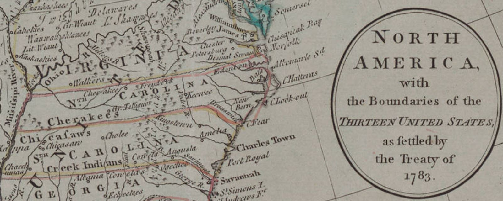 Area of North Carolina from North America with the boundaries of the thirteen United States, as settled by the Treaty of 1783, author unknown, published in England between 1783 and 1789